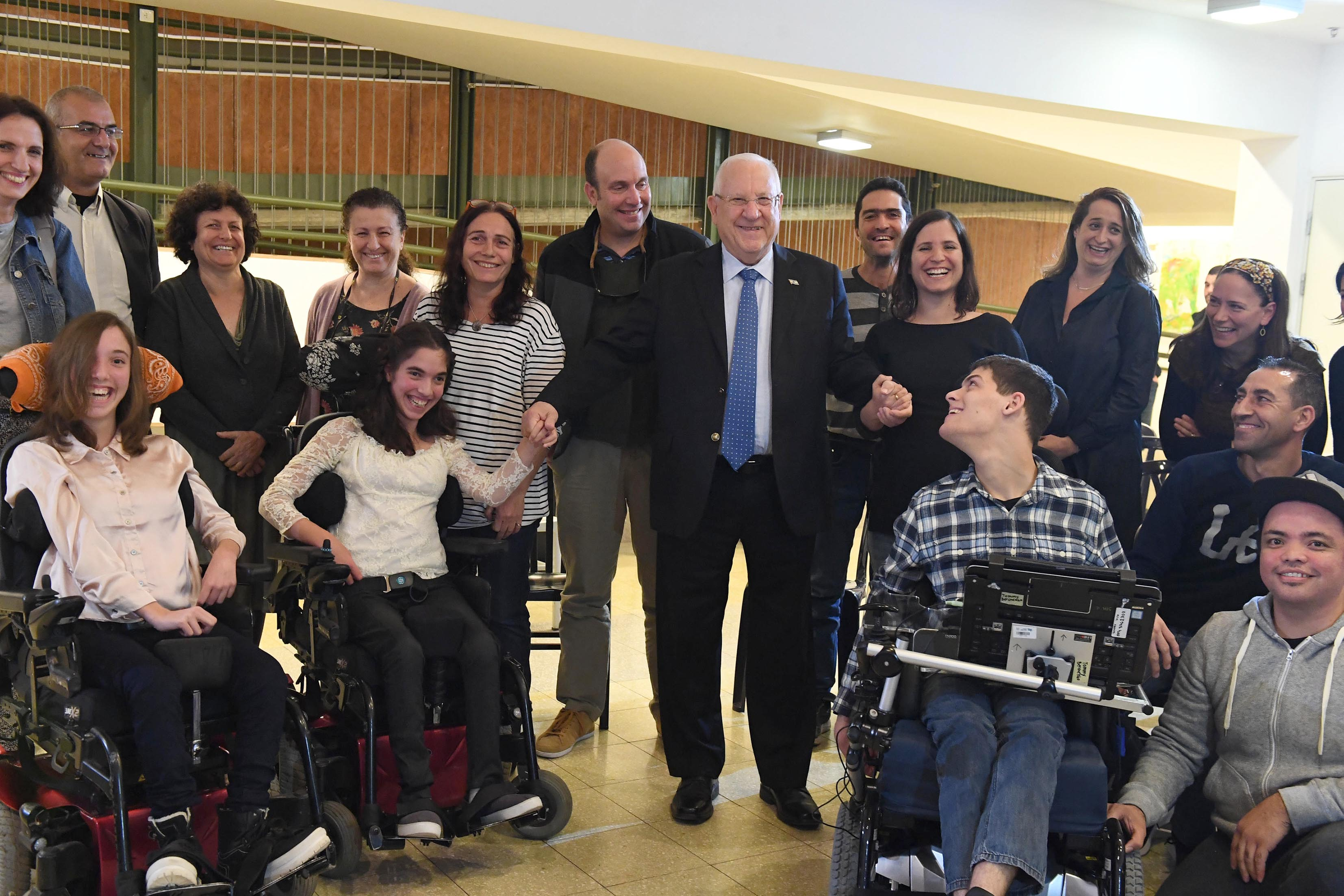 President of the State of Israel, Reuven Rivlin, visited "Beit HaGalgalim" organization to mark the International Day for Equal Rights for People with Disabilities. Sunday, December 12, 2017. Photo Credit: Mark Neyman / GPO.